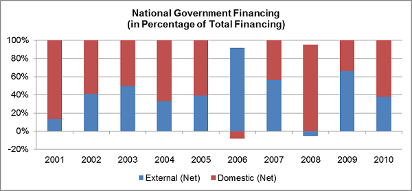 A graph comparing the percentage of total financing the Philippines gets from external and domestic sources